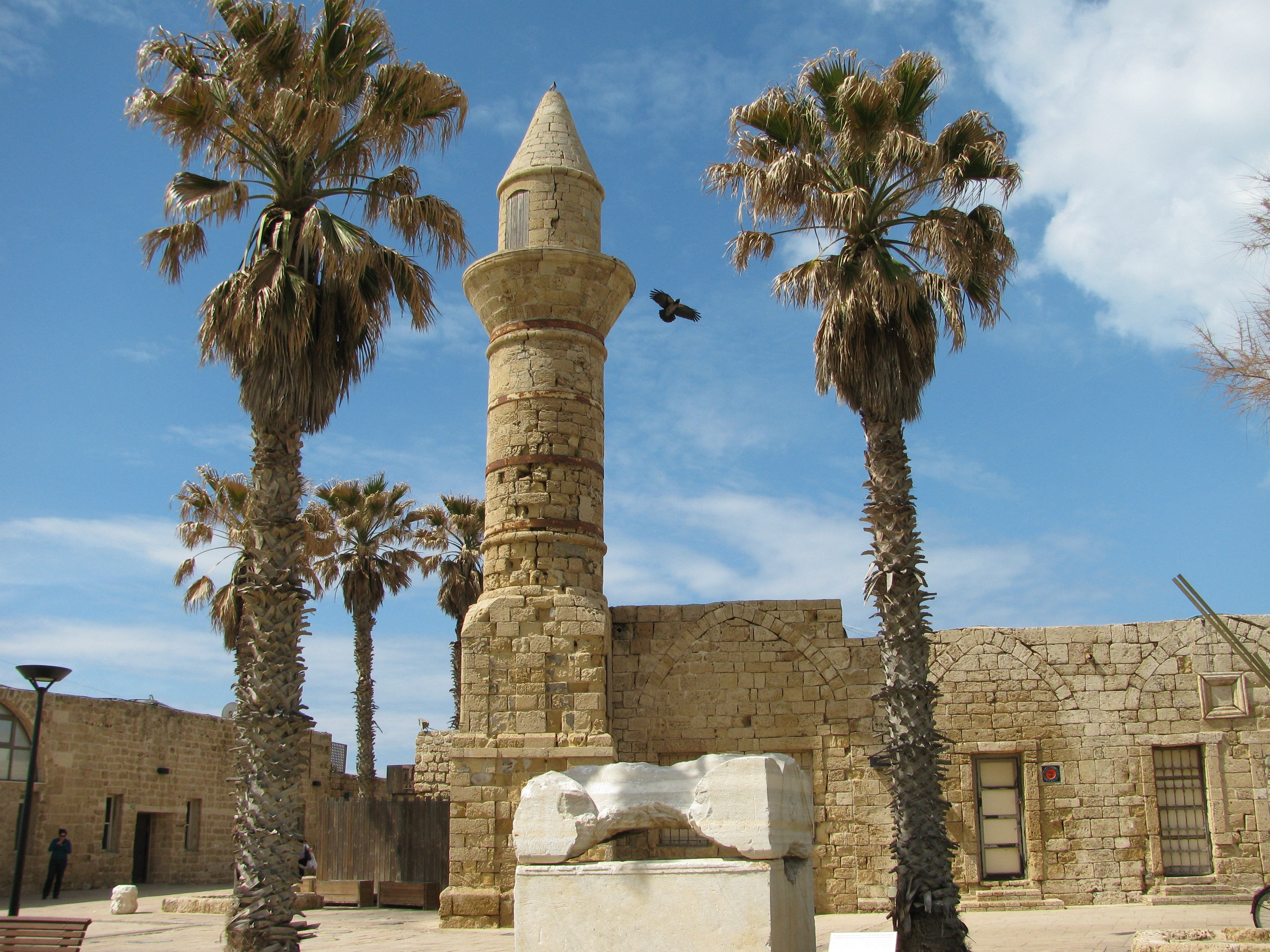 A Bosnian mosque in Caesarea port